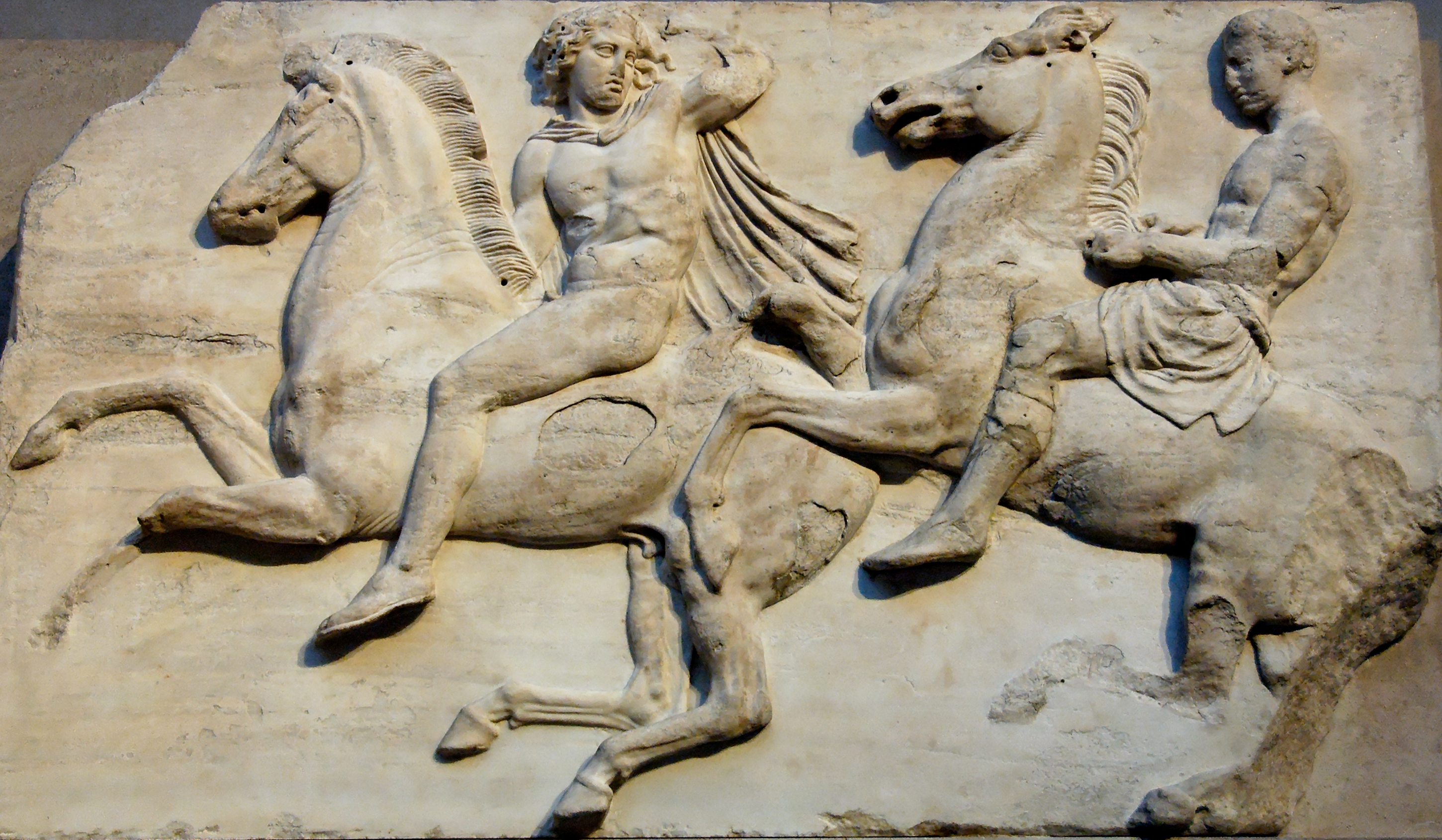 Cavalcade. Block II from the west frieze of the Parthenon, ca. 447–433 BC.